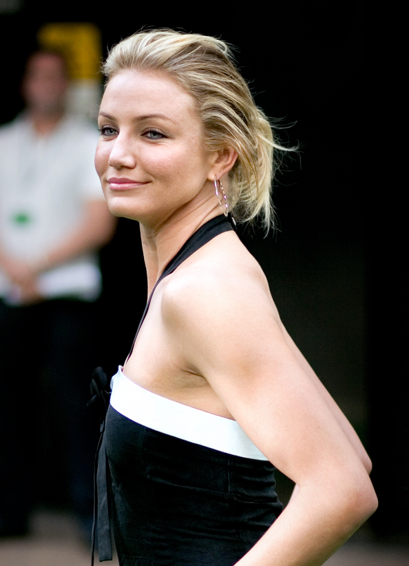 Cameron Diaz at the Shrek the Third London premiere